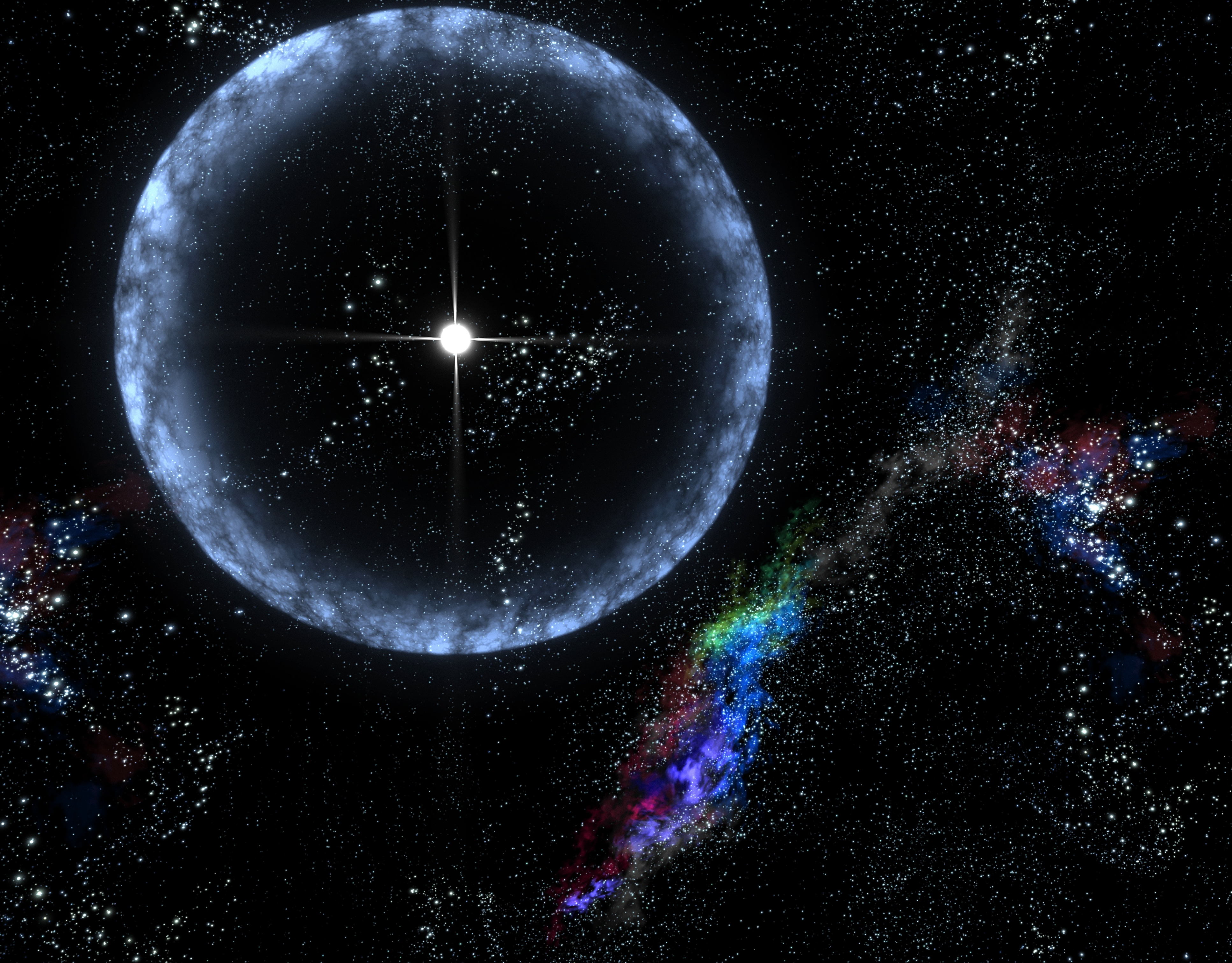 An artists's concept of the 2004 occurence in which a neutron star underwent a "star quake", causing it to flare brightly, temporarily blinding all x-ray satellites in orbit.